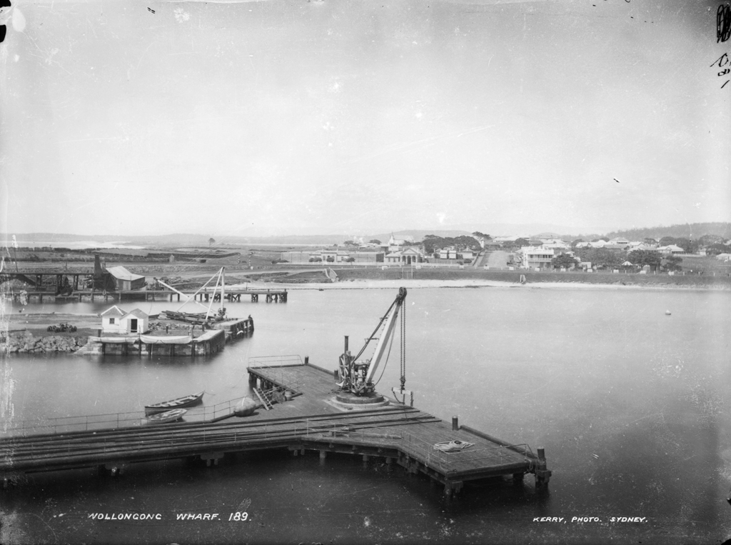 Format: Glass plate negative. Repository: Tyrrell Photographic Collection, Powerhouse Museum Part Of: Powerhouse Museum Collection General information about the Powerhouse Museum Collection is available at Persistent URL: Acquisition credit line: Gift of Australian Consolidated Press under the Taxation Incentives for the Arts Scheme, 1985